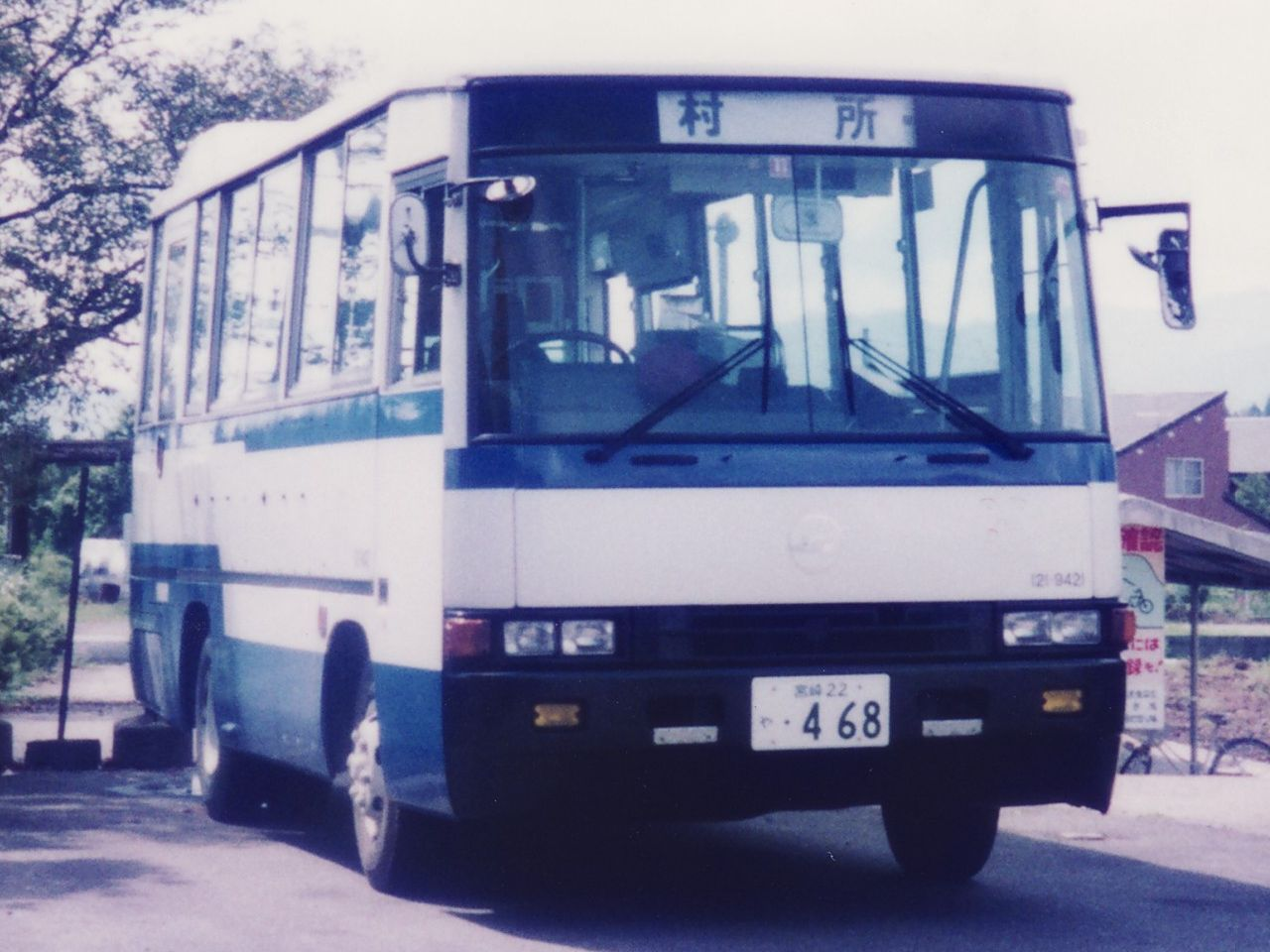 Nishimera Village Municipal Bus Use:transit bus Car license:宮崎22や・468 Code:121-9421 Chassis manufacturer:Isuzu Motors Coachbuilder:Kitamura Manufacturing Location:in Yunomae Town, Kumamoto, Japan Scanned from negative color print